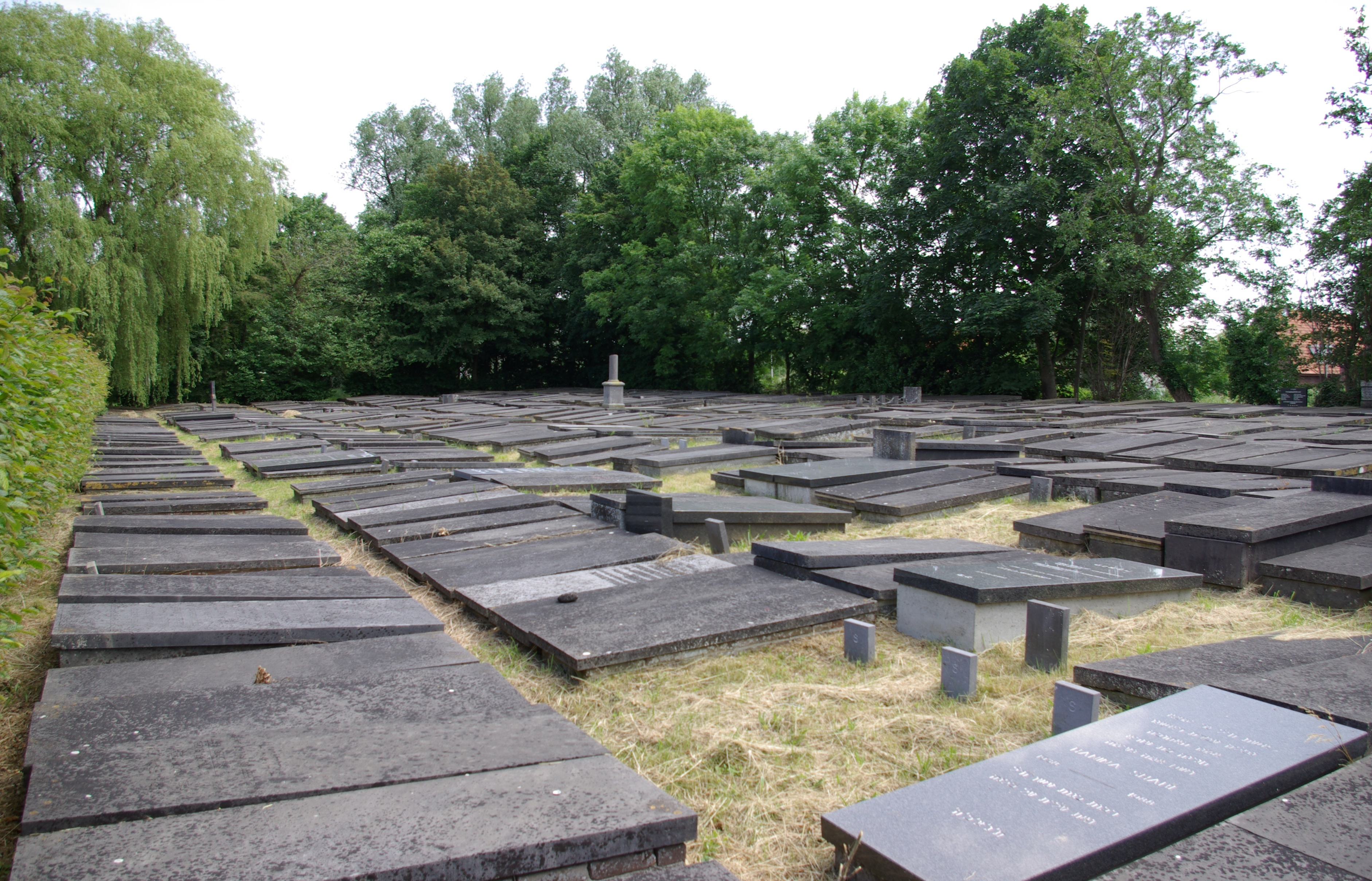 Beth Haim of Ouderkerk aan de Amstel